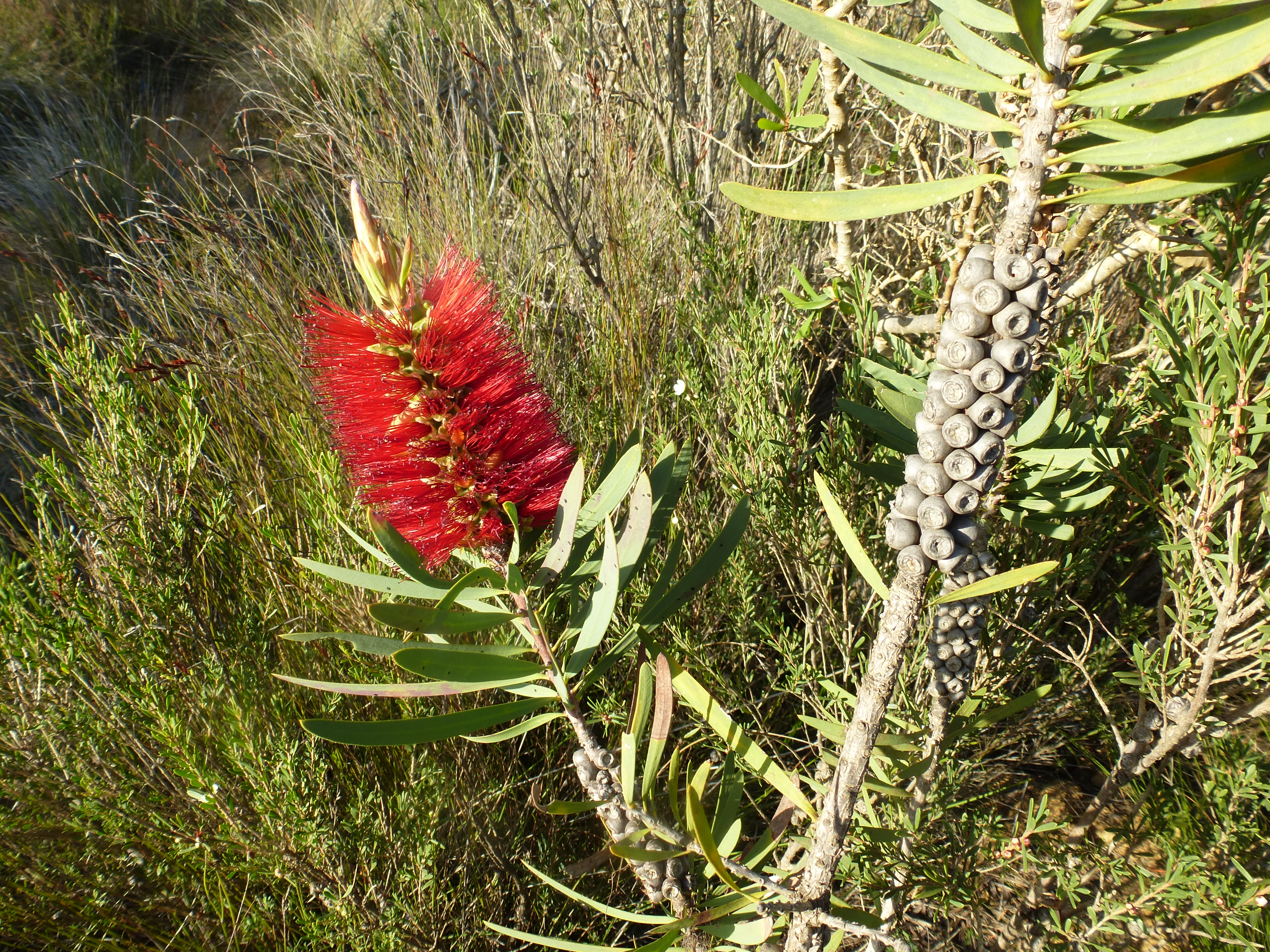 Melaleuca glauca growing in Gull Rock National Park near Albany